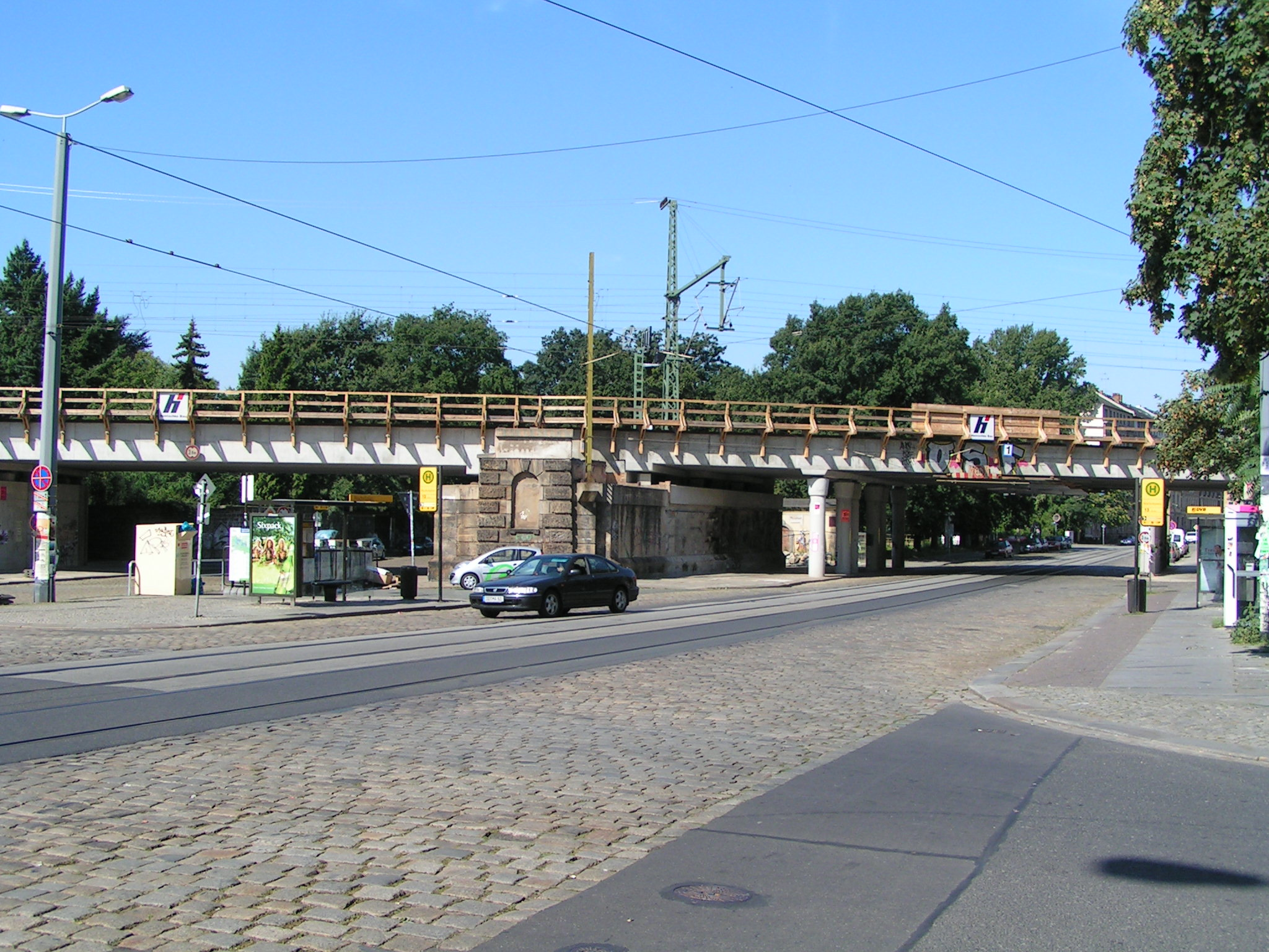 Dresden, Hechtviertel, Bischofsplatz